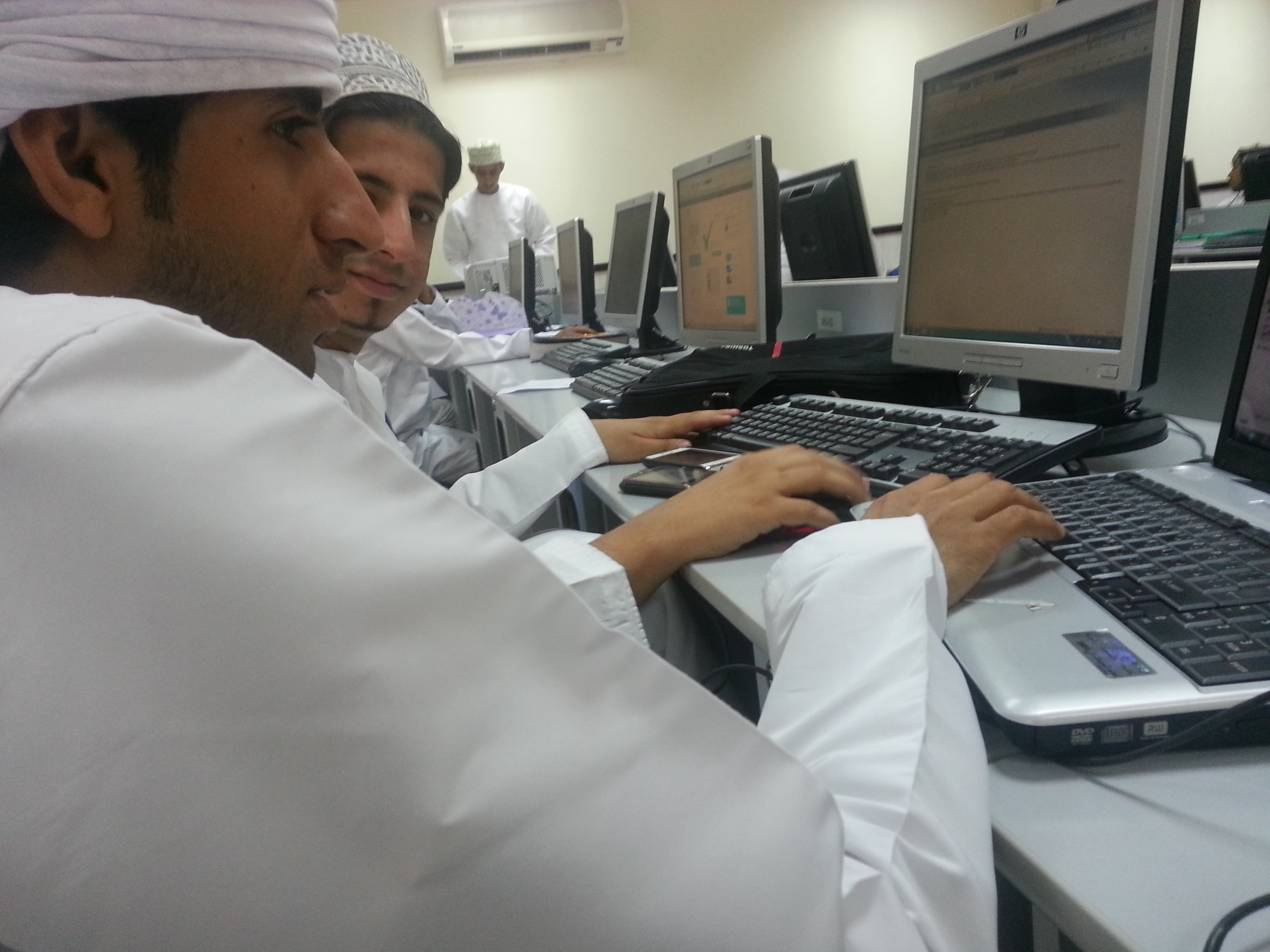 في الكلية